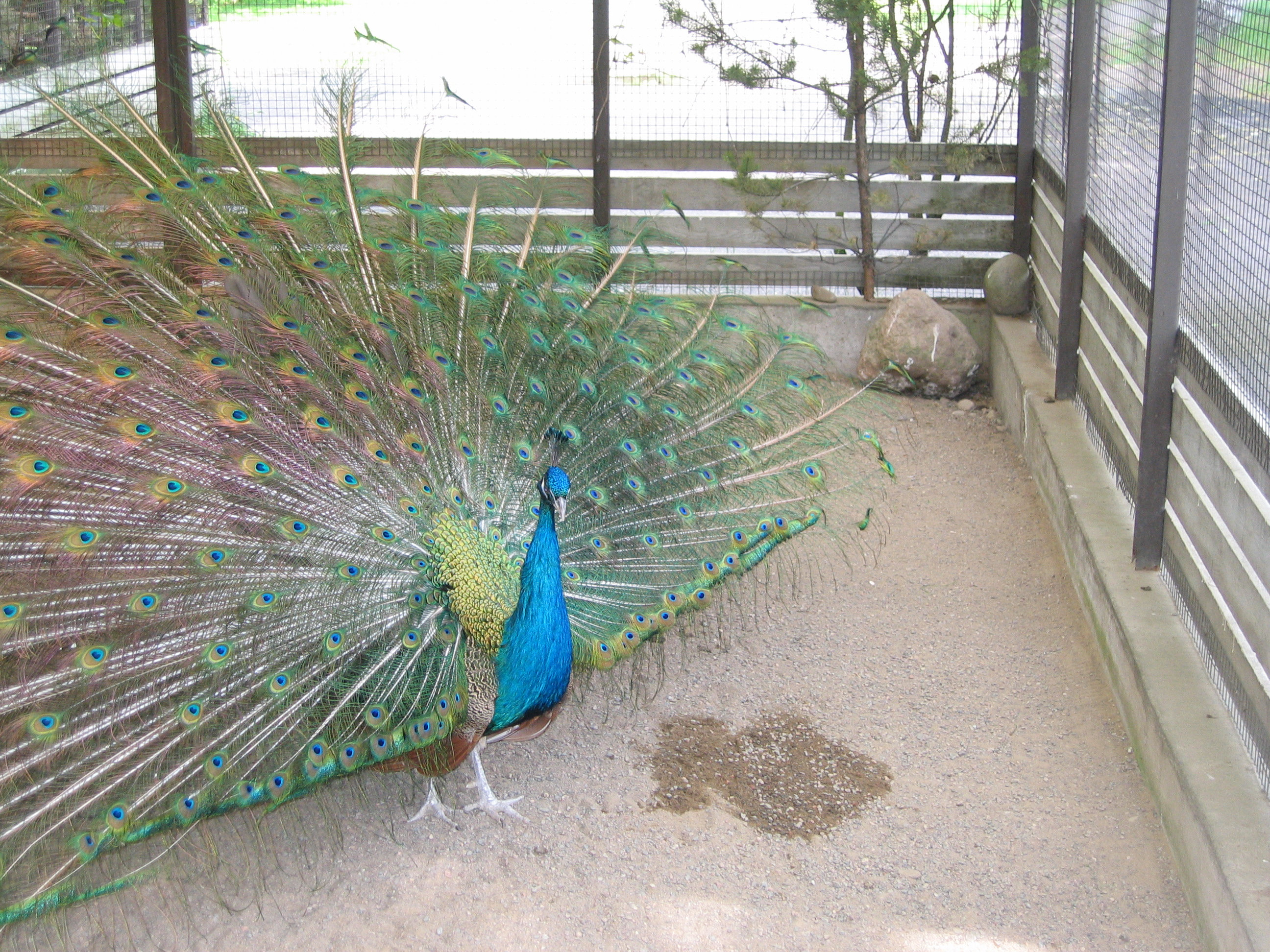 Indian Peafowl (Pavo cristatus) at Heinola Bird Sanctuary in Heinola, Finland